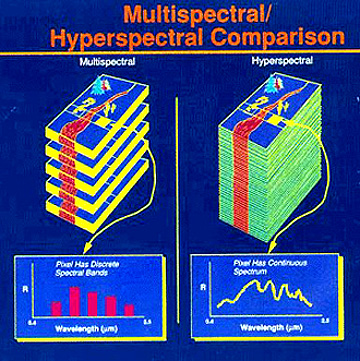 Comparison of Hyperspectral to Multispectral data.